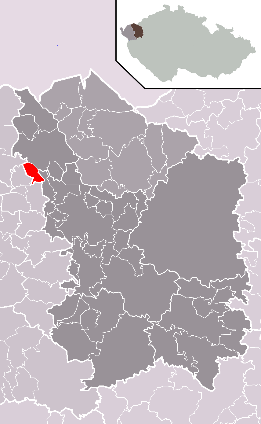 Location of Černava municipality within Karlovy Vary District and administrative area of Karlovy Vary as a Municipality with Extended Competence.